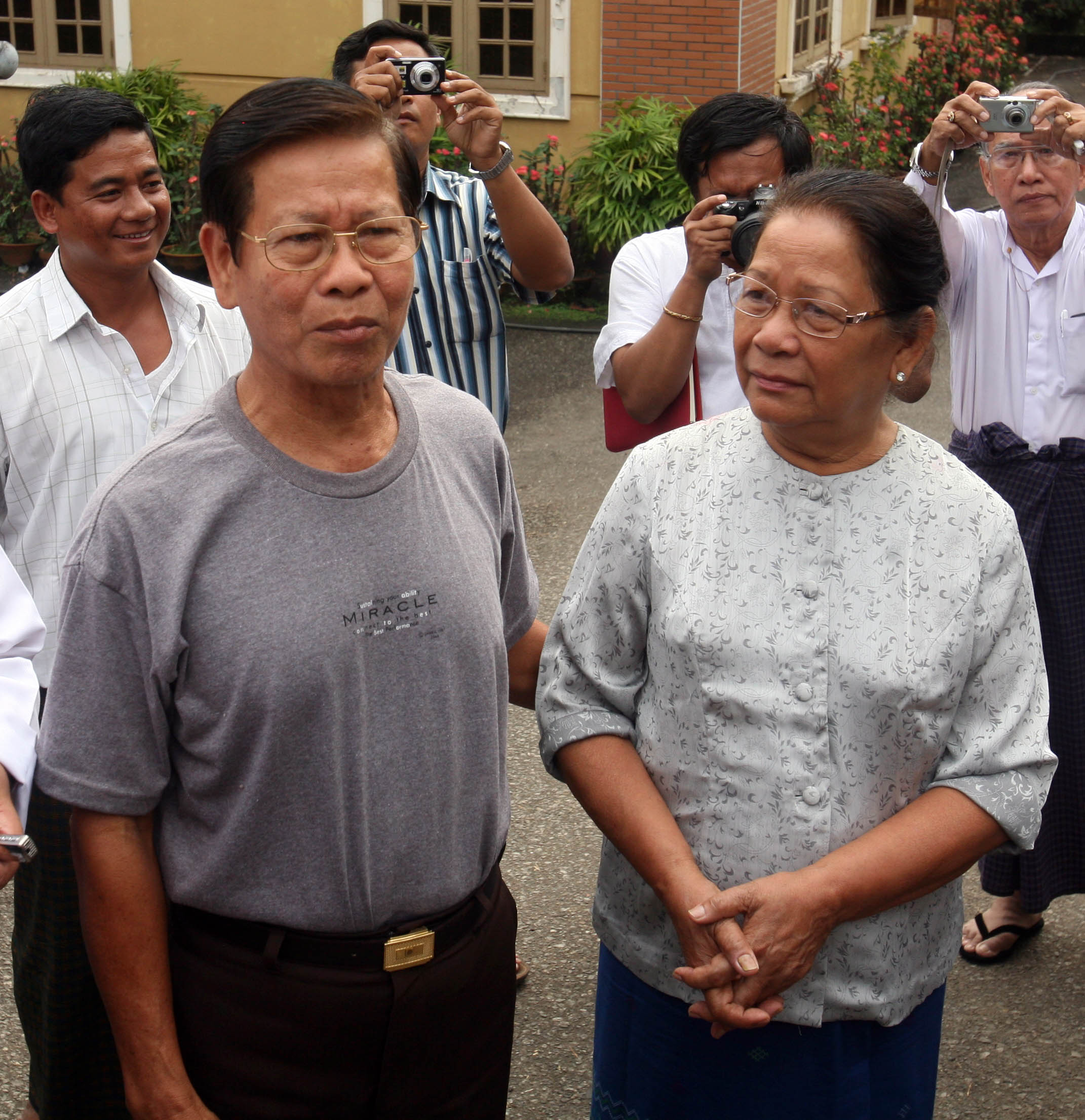 Former Burmese prime minister and military intelligence chief Khin Nyunt (Left) posts for a photograph at his resident as he is being released by the government amnesty from the house arrest detention in Yangon, Myanmar on 13 January 2012.